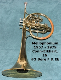 Reduced size of the orginal Mellophonium_Discription-r.jpg